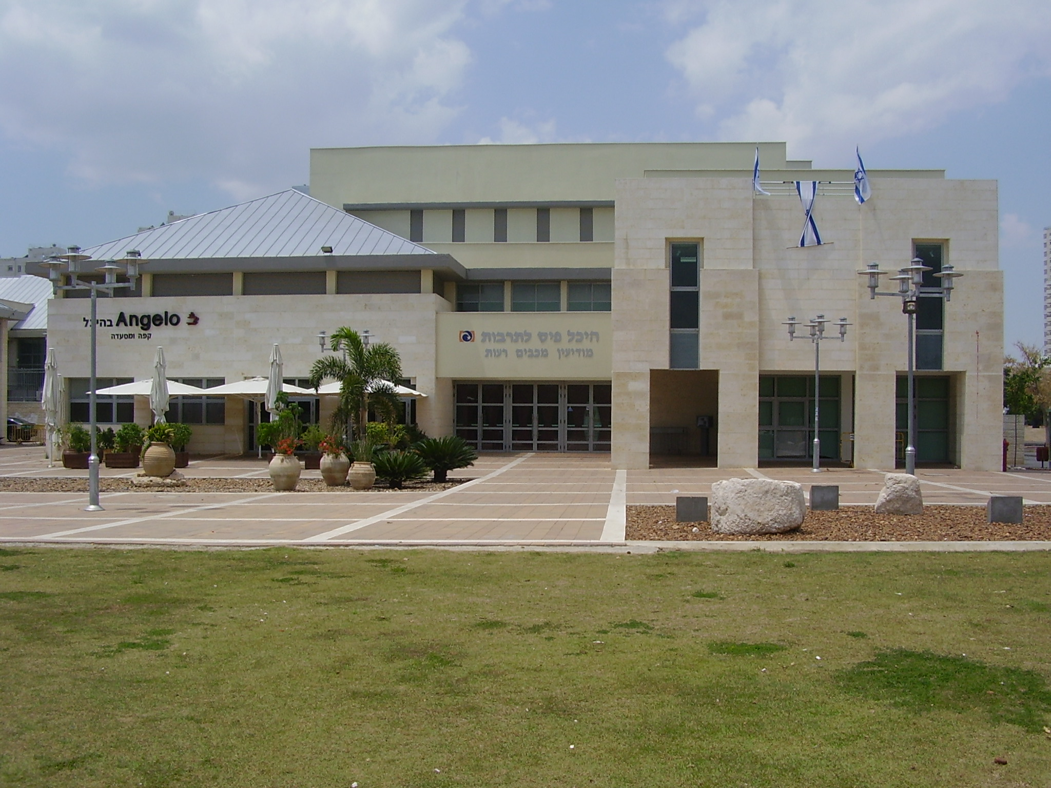 culture auditorium in modi\'in